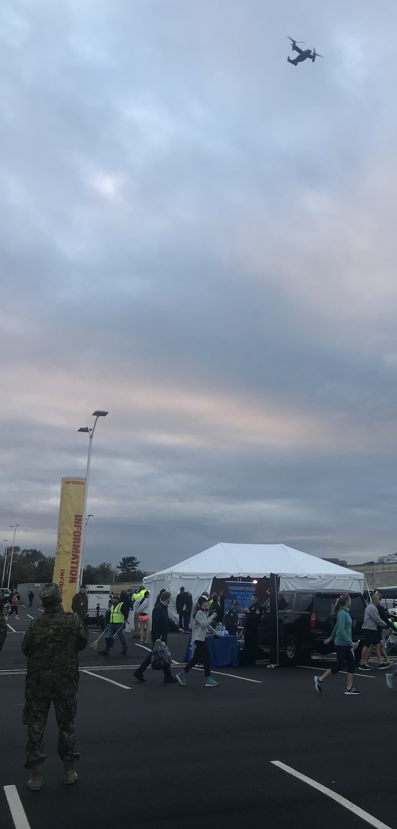 Picture of Bell Boeing V-22 Osprey flying over start of Marine Corp Marathon